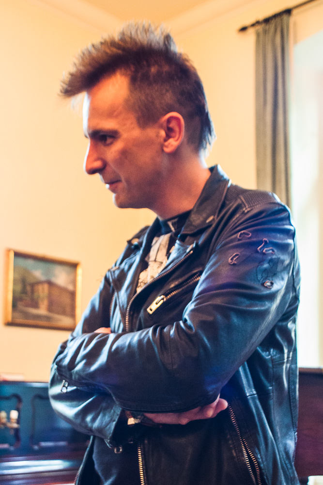 Gerald Hörhan giving a presentation.